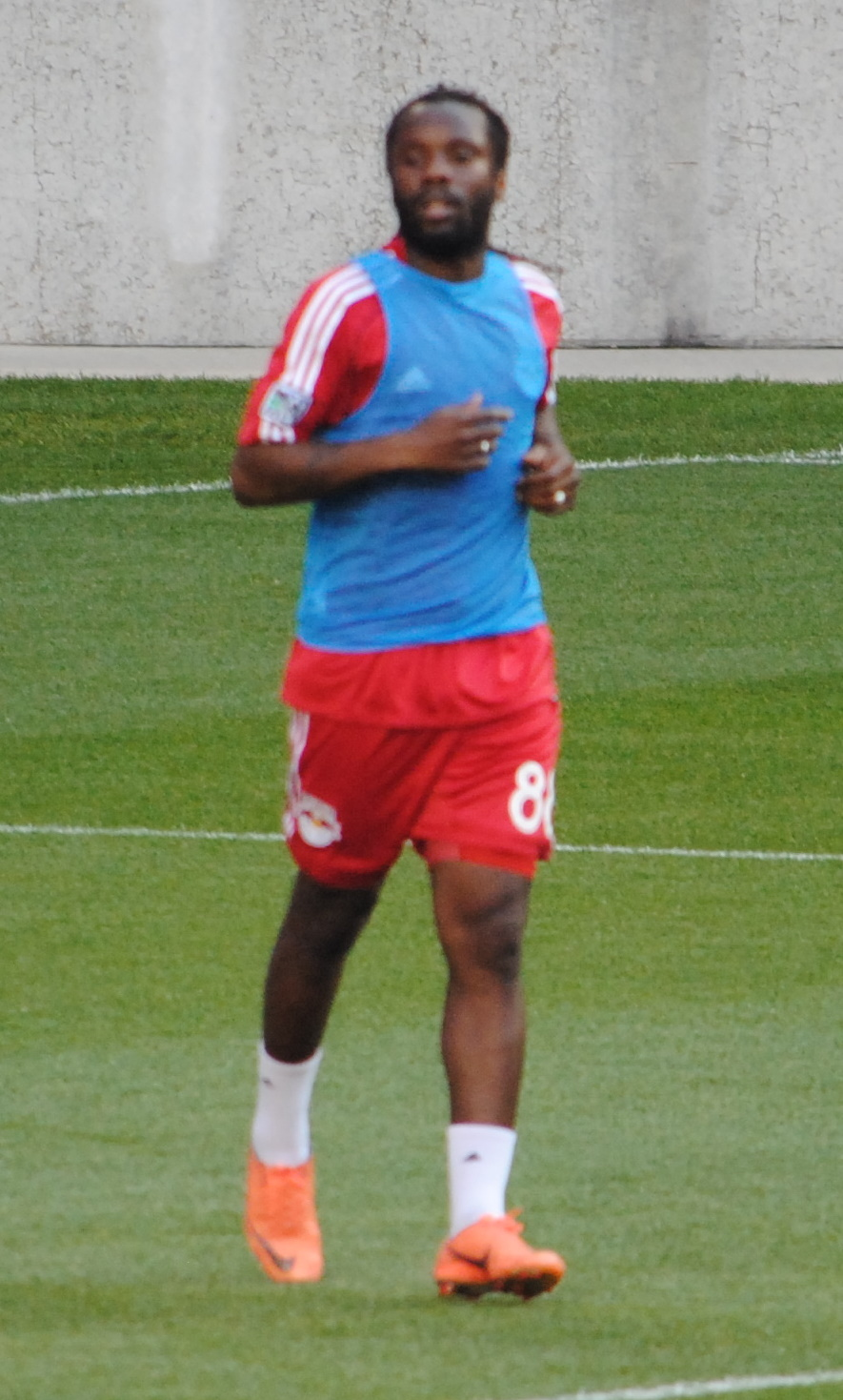 Peguy Luyindula training with New York Red Bulls